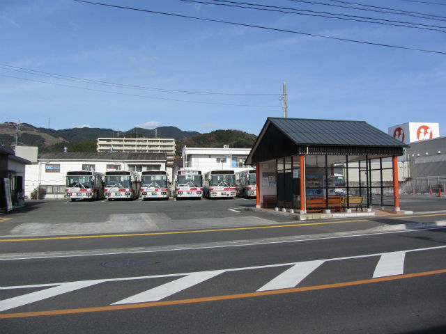 Haki Bus Stop, operated by Nisitetsu Bus Futsukaichi, in Asakura City, Fukuoka Prefecture, Japan